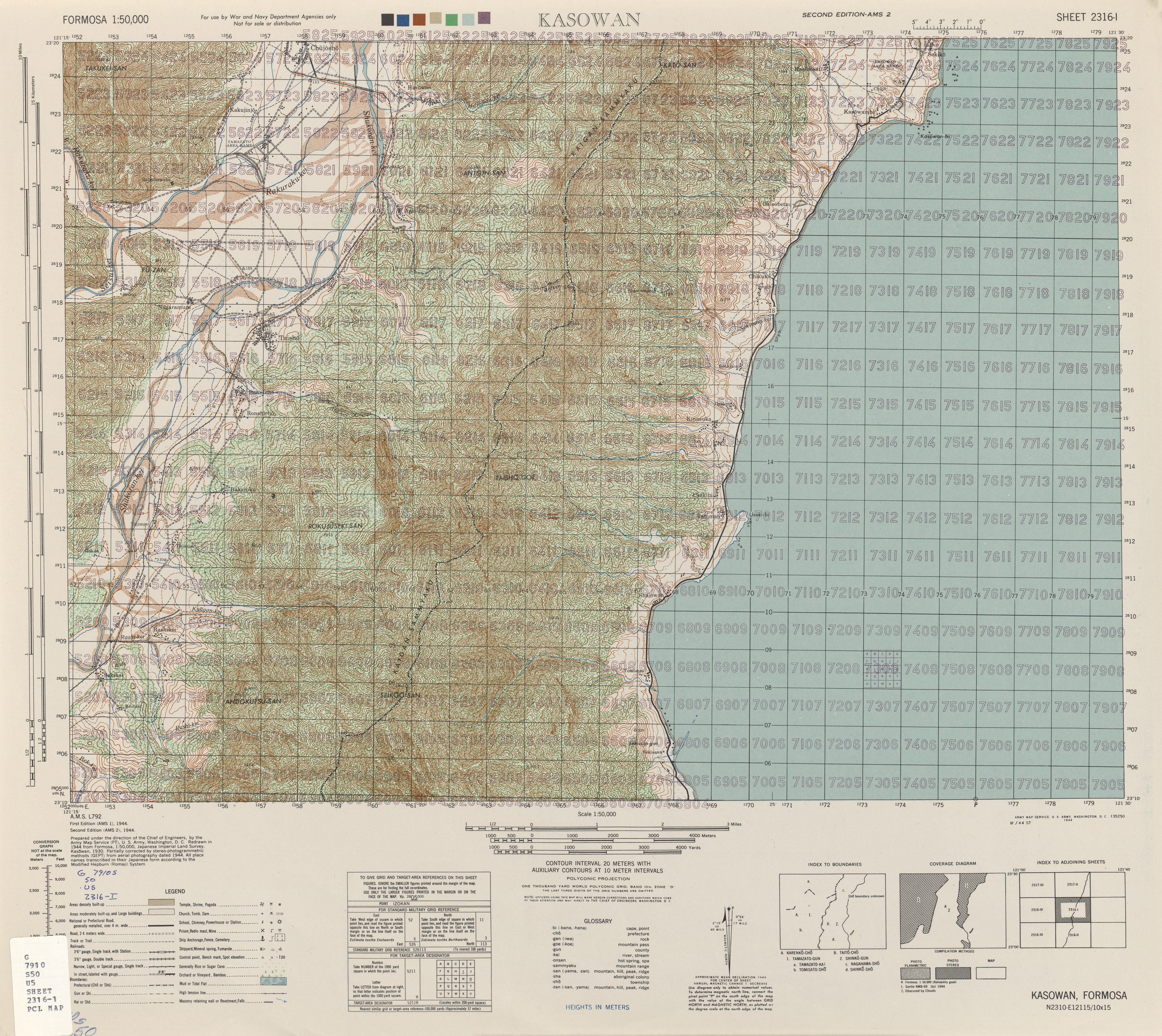 Map of Formosa (Taiwan) 1:50,000 AMS Series L792